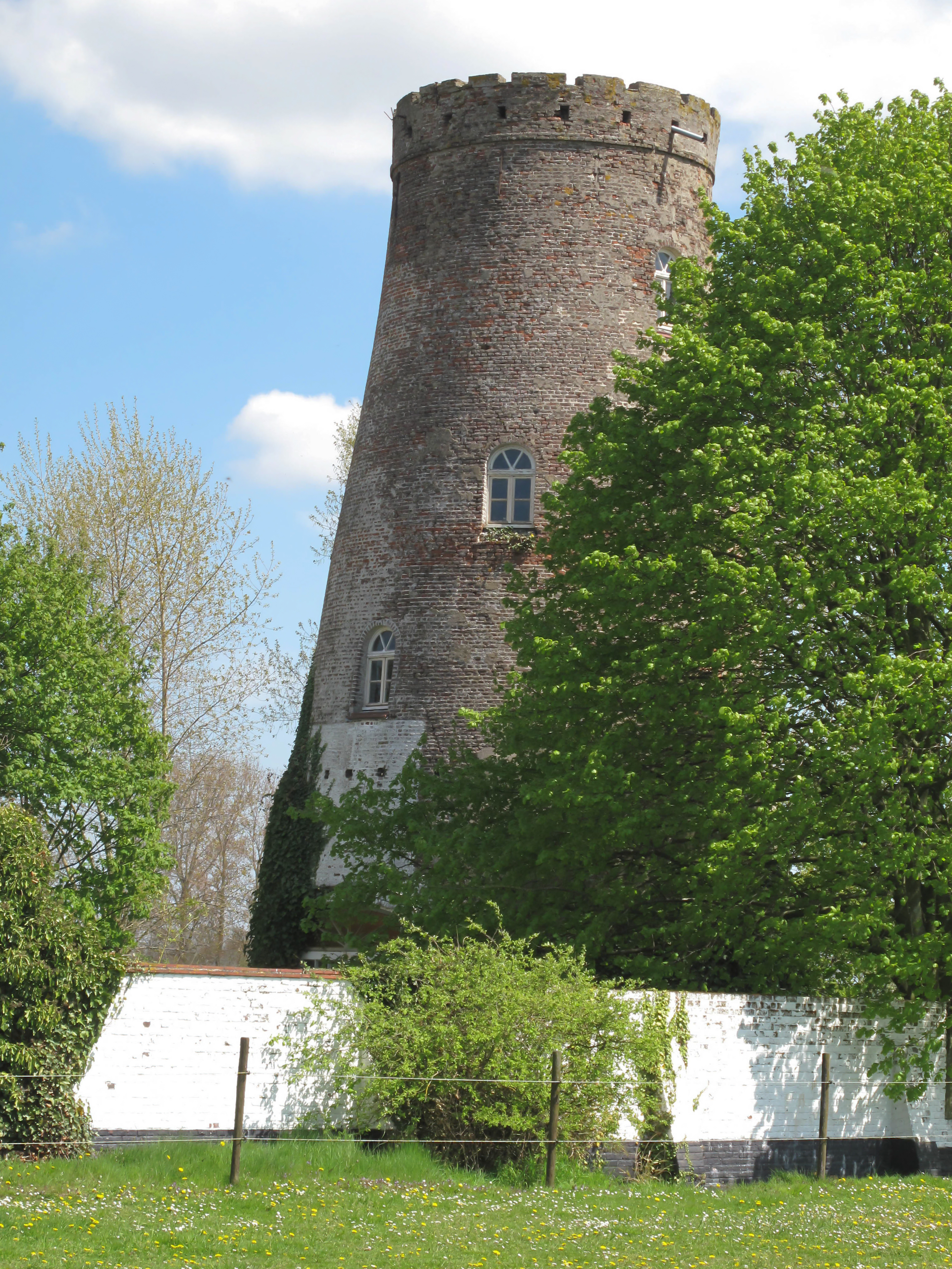 Watervliet, windmill: de Fraukensmolen